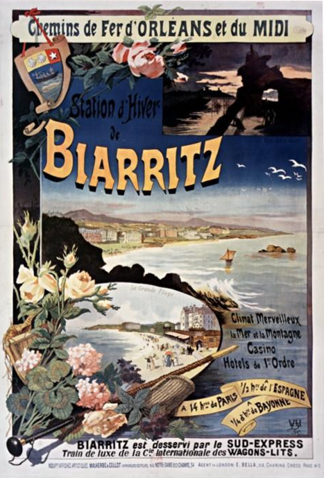 Poster of the Compagnie du chemin de fer de Paris à Orléans and the Compagnie des chemins de fer du Midi (France); Biarritz, station d'hiver.